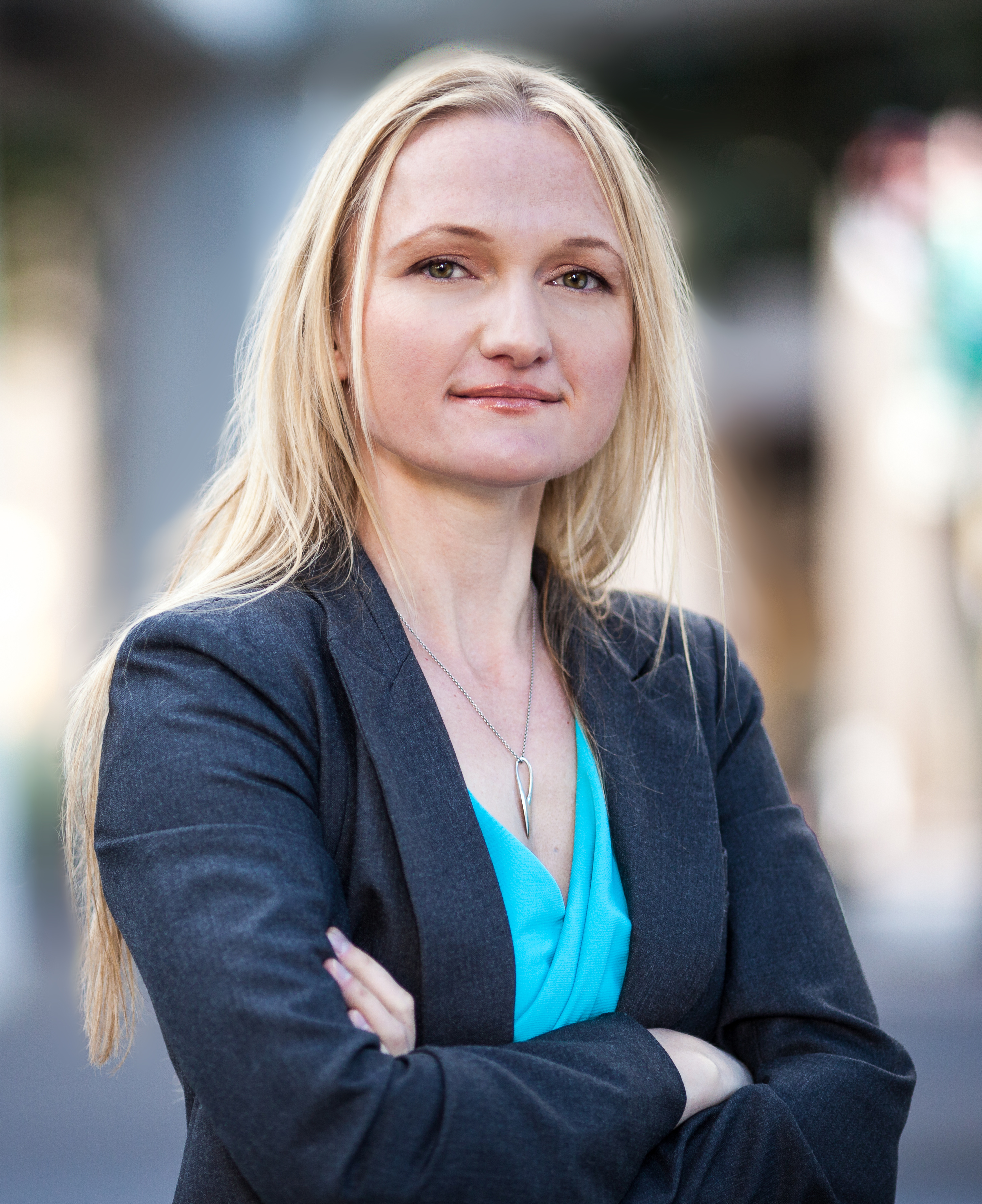 Photo of WMF Executive Director Lila Tretikov.